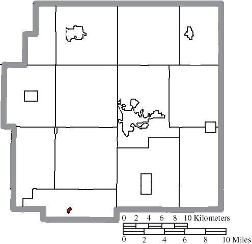 Map of the municipal and township boundaries of Wyandot County, Ohio, United States, as of the 2000 census, with the location of the village of Marseilles highlighted. Township borders are shown only in unincorporated areas in order to differentiate incorporated and unincorporated areas more clearly.